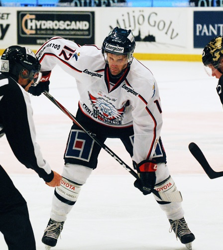 Sebastian Karlsson during a SHL game against AIK.